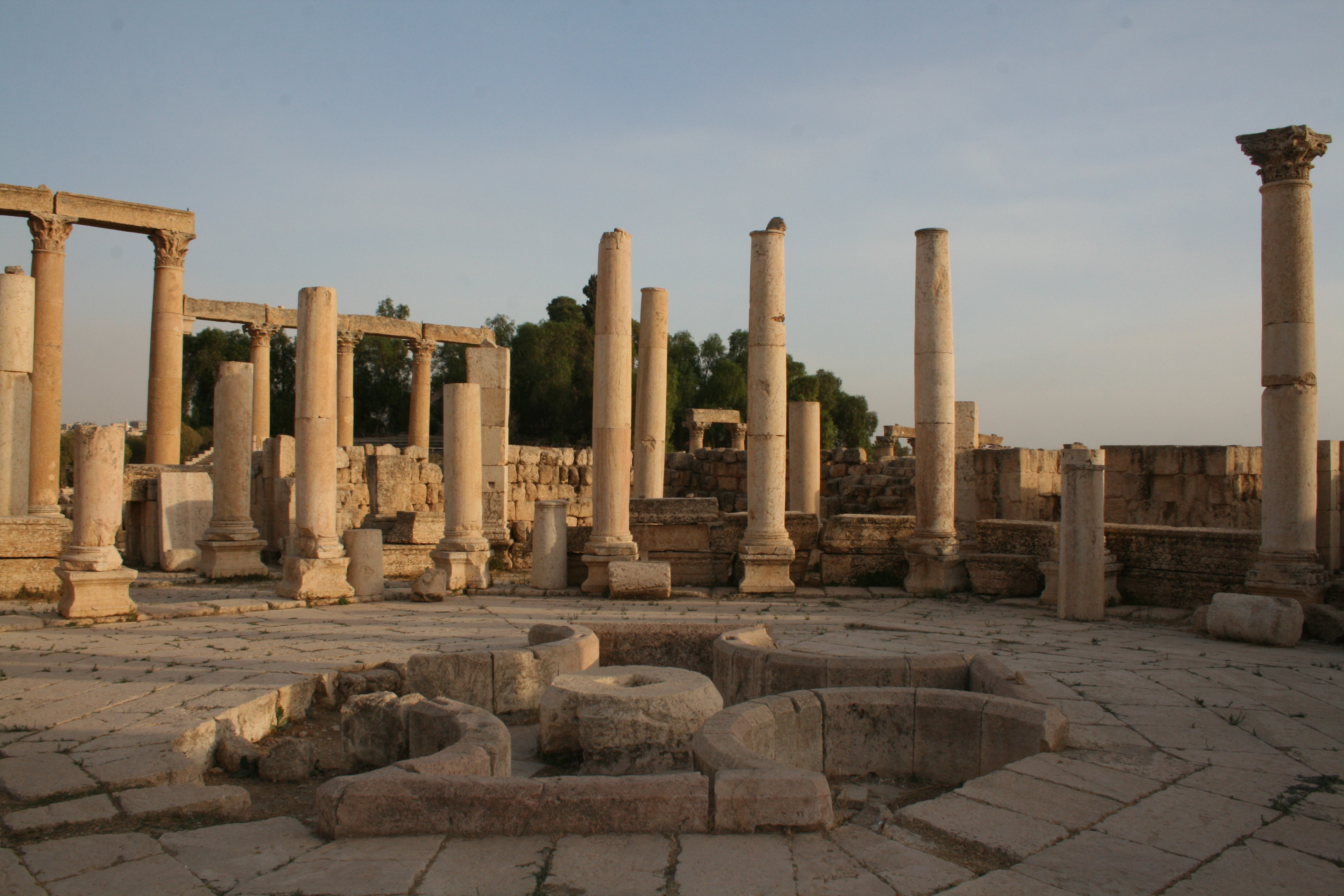 Macellum, Jerash, Jordan